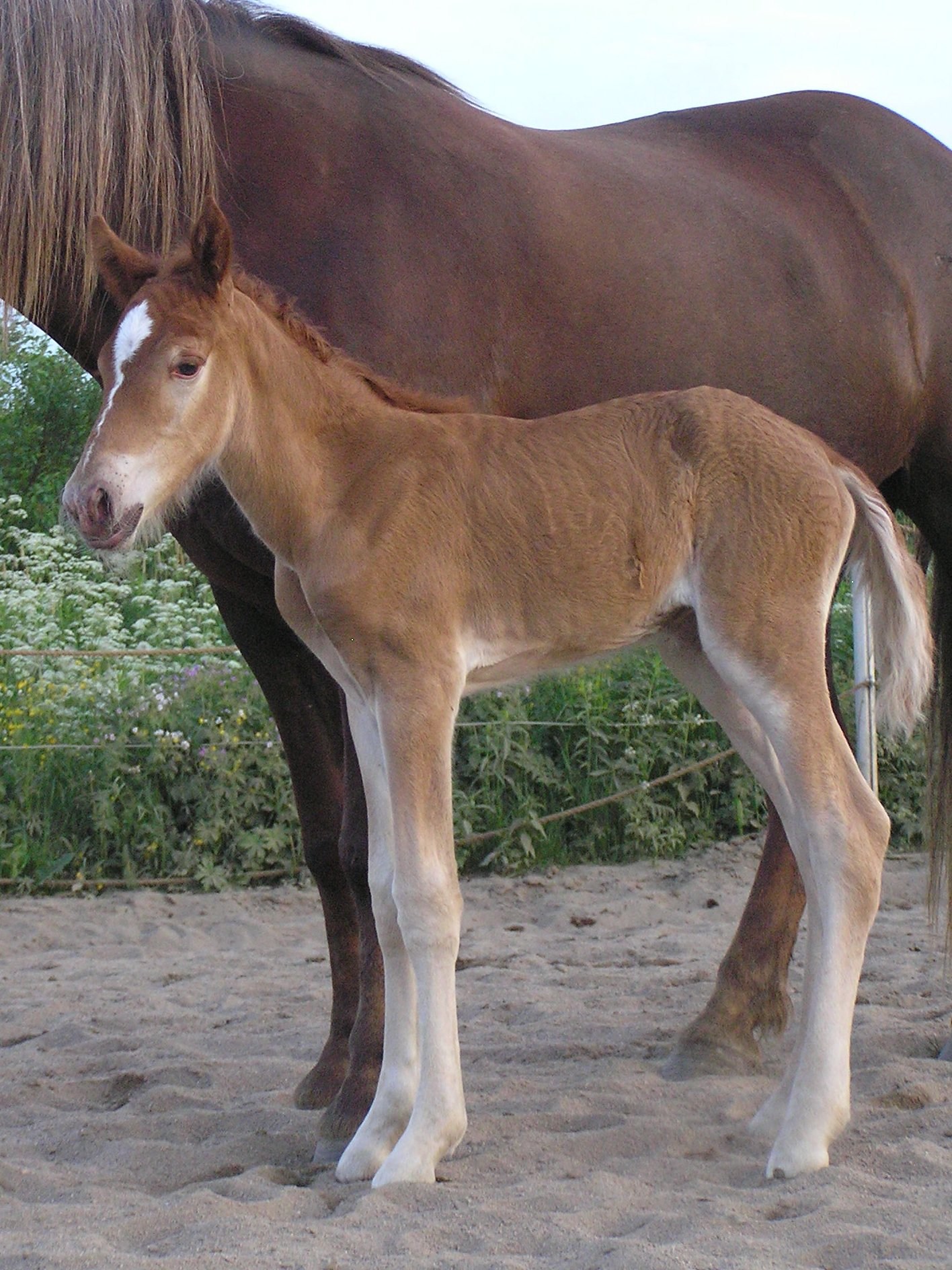 Young Finnhorse colt. Note the overall paleness of what will be a strong clear sorrel coat without pangaré (as seen in some of the Finnhorse bachelor herd images), and the similar underpigmentation in the facial skin.